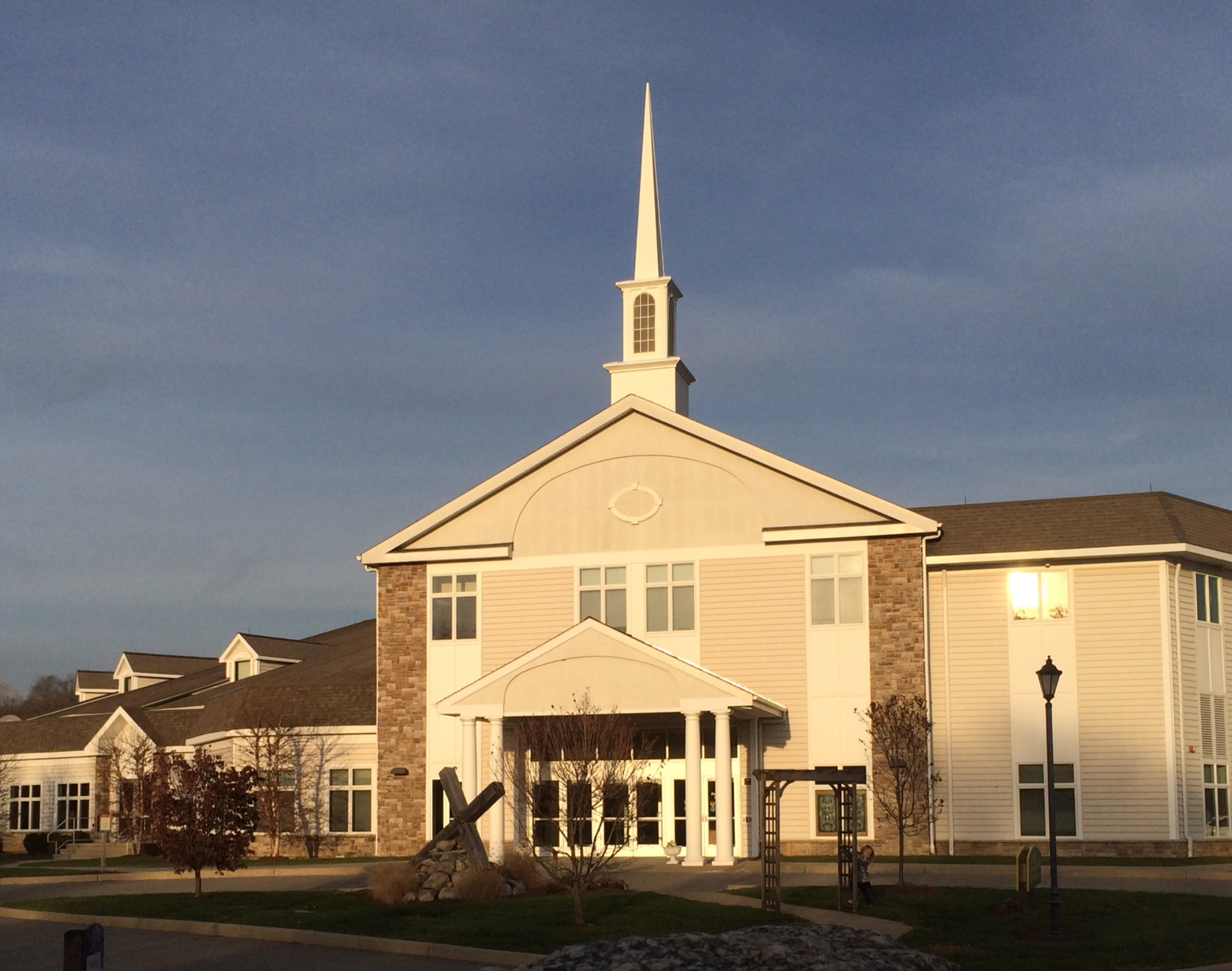 Picture of Walnut Hill Community Church in Bethel, Connecticut